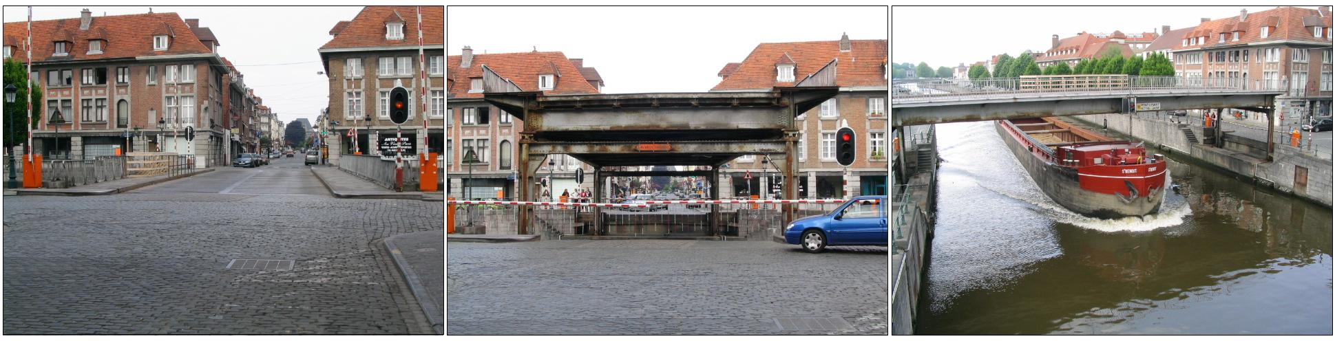 Combination of three Wiki-uploaded, GFDL-tagged images related to Table bridge. Daniel.Bryant 06:47, 8 September 2006 (UTC) Component images Image:Tournai Pont levant Notre Dame 20040520-007.jpg Image:Tournai Pont levant Notre Dame 20040520-014.jpg image:Tournai Pont levant Notre Dame 20040520-017.jpg